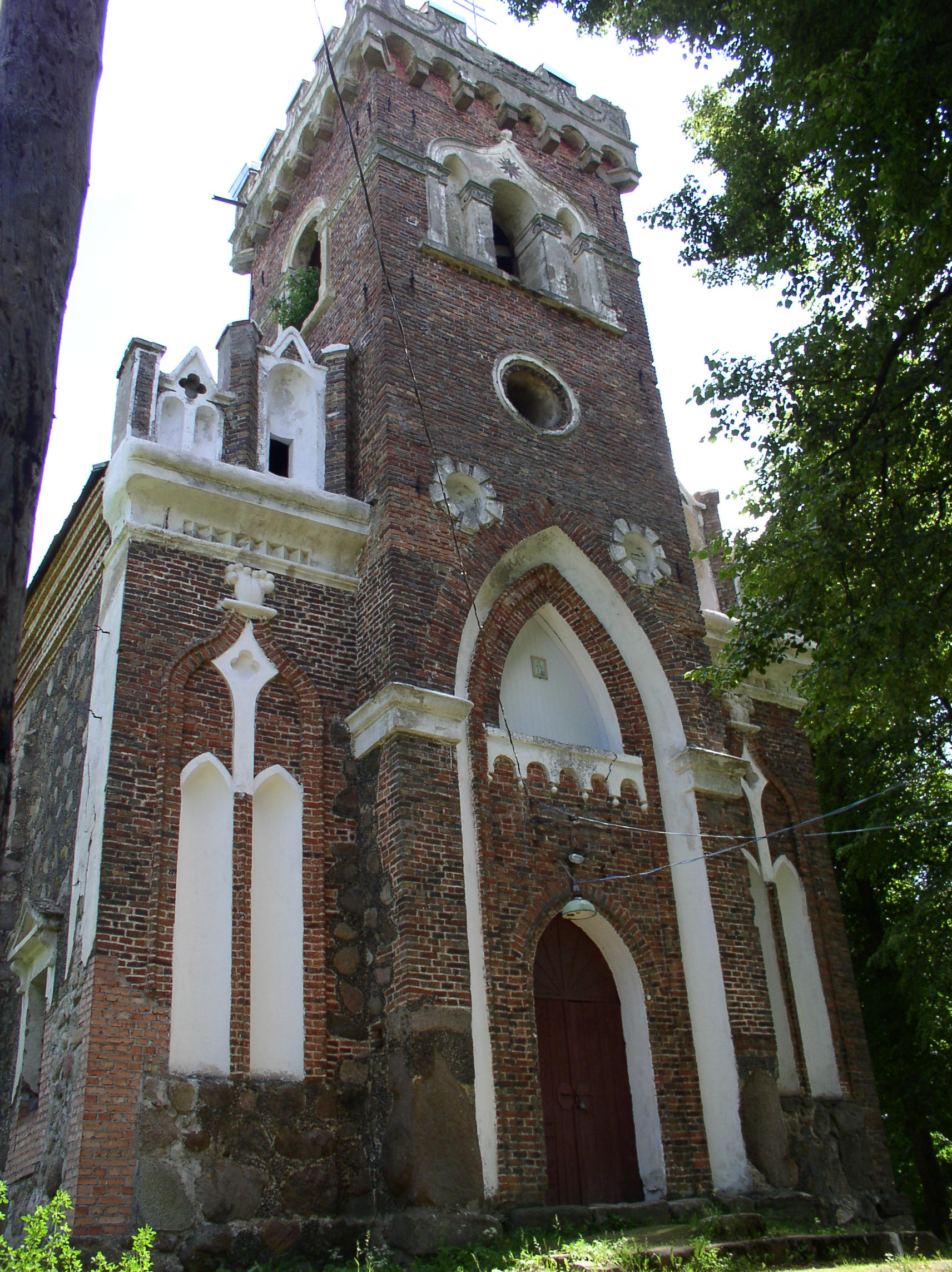 Church of Saint Barbara. Raytsa, Belarus.